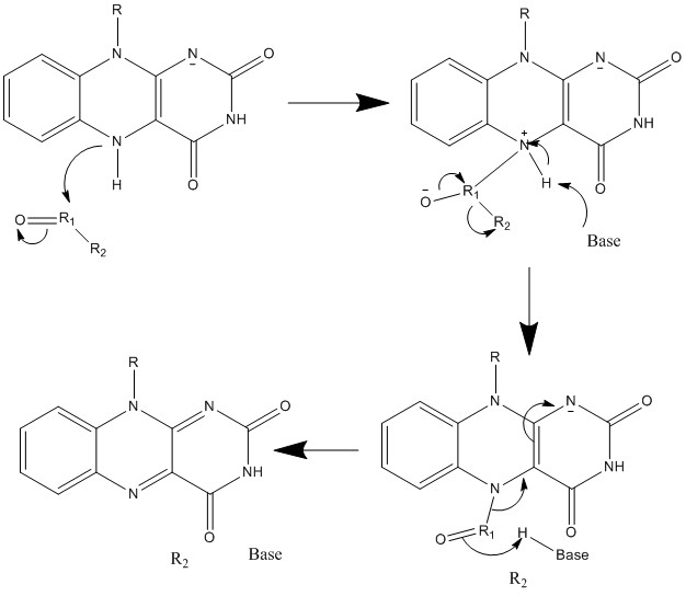 Addition of nucleophile